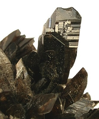 Axinite-(Mn) Locality: Bor Pit (Boron Pit; Bor Quarry), Dal'negorsk B deposit, Dal'negorsk (Dalnegorsk; Tetyukhe; Tjetjuche; Tetjuche), Primorskiy Kray, Far-Eastern Region, Russia (Locality at ) Size: 22.0 x 13.1 x 7.2 cm. This is a very rare, large plate of manganaxinite from the mines at Dal’negorsk, with sharp curving crystals to 4 cm in height splaying out from the matrix in all directions. It is, despite its size, nearly pristine. Note that this is not to be confused with the far more common axinites from Puiva in the Ural Mountains. You can note it by the distinct crystal style of robust, curving crystals that are fatter and more opaque than Puiva material, much like the old Japanese material in fact. These specimens were found in the late 1990s. Weighs nearly 2 kilograms.